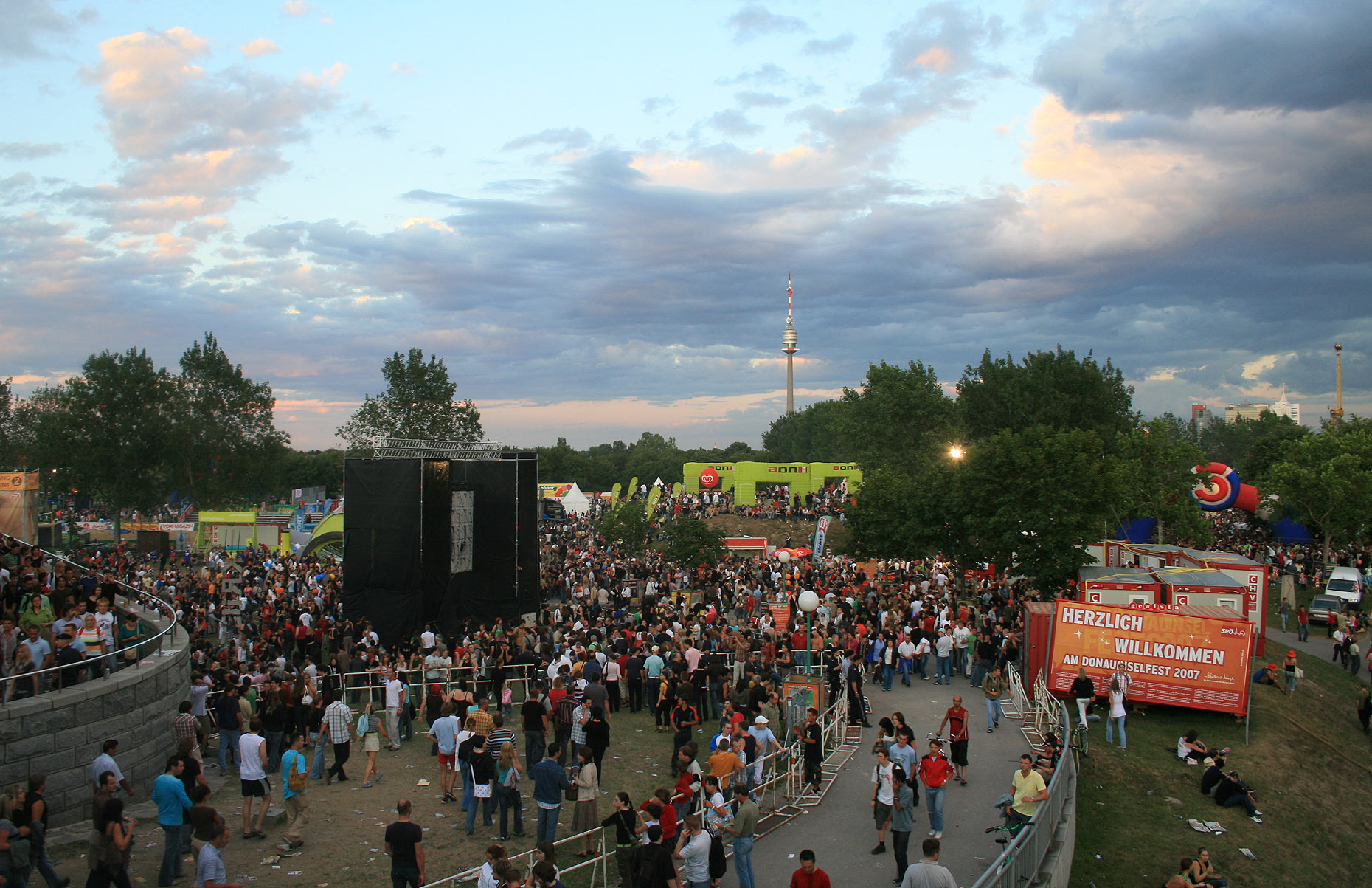 Austria, Vienna, Donauturm